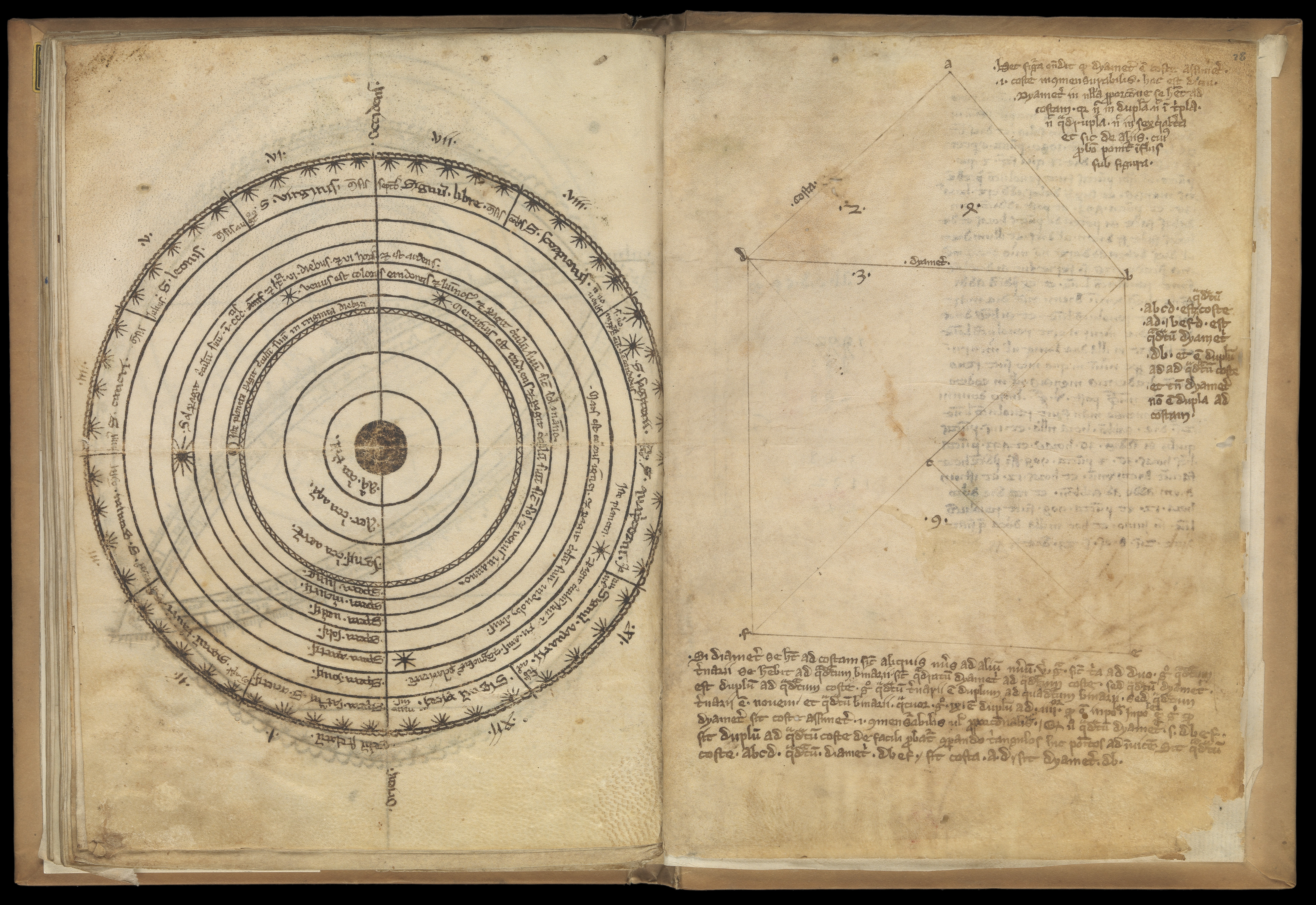 Canones Arzachelis in tabulas Toletanas. Theorica planetarum. Wrritten in a neat book hand in double column of 39 lines to a column. Initial with marginal decoration in alternate red and blue, and blue and red. Paragraph marks in alternate red and blue, headings in red. Illustrated wth 8 geometrical figures in red, and 3 large astronomical diagrams in black, and geometrical figure in black: with a table of sines in red (fol. 4v), and another in red and black (fol. 25) of 'Motus planetarum in die secundum ptolomeum'. Fol. 1 (red) Incipiunt canones super tabulas/astronomie. (Text begins) Quonian cuiusque/accionis quantitatem temporis/metitue... 19v, col. 2 ... Scies, quoque diem et horam/et quantitatem eclipsium si deus uo/lerit.//Expliciunt canones astrono//mie de gracias. 20 (red) Incipit theorica planetarum. CIrculus/dicitur eccentricus uel egisse cuspidis... 25, col. 2 ... erunt/uincti lumine ipsi planete et non corporaliter.//Explicit theorica planetarum.///[Table 'Motus planetarum']. 26 Tree of Species. 26v Zodiacal diagram. 27 Armillary sphere. 27v Diagram of the Spheres. 28 Geometrical figure, with notes by a contemporary hand. 28v (red) De vera primatione./Si vis scire diem et horam et punctum reuo/lutionis lune... In this note an example is given based on the year 1286. Ot these two works the 'Theorica planetarum' is probably by Gerard of Cremona, himself, but the 'Canones' are a translation by him of the 'Toledan Tables' originally edited by Iban al-Zarquala or al-Zarqali [c. 1029-c. 1087], an Arabic astronomer of Corodova [cf. Sarton. 'Introduction to the History of Science', VOl. I, pp. 758-759]. Medical Photographic Library